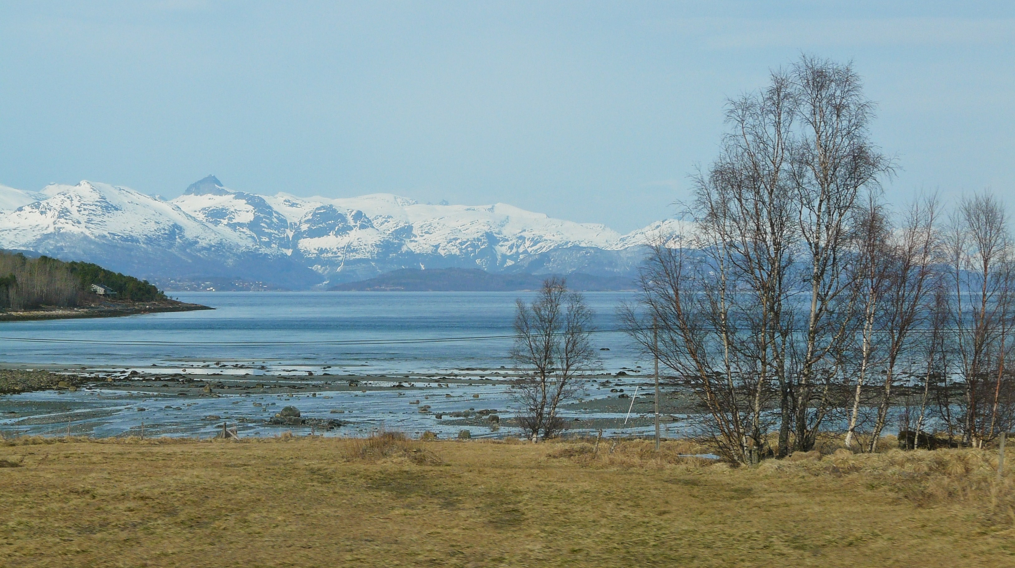 A view to Ofotfjorden from the Riksvei 819 road at Djupvika in Ballangen in 2009 May.